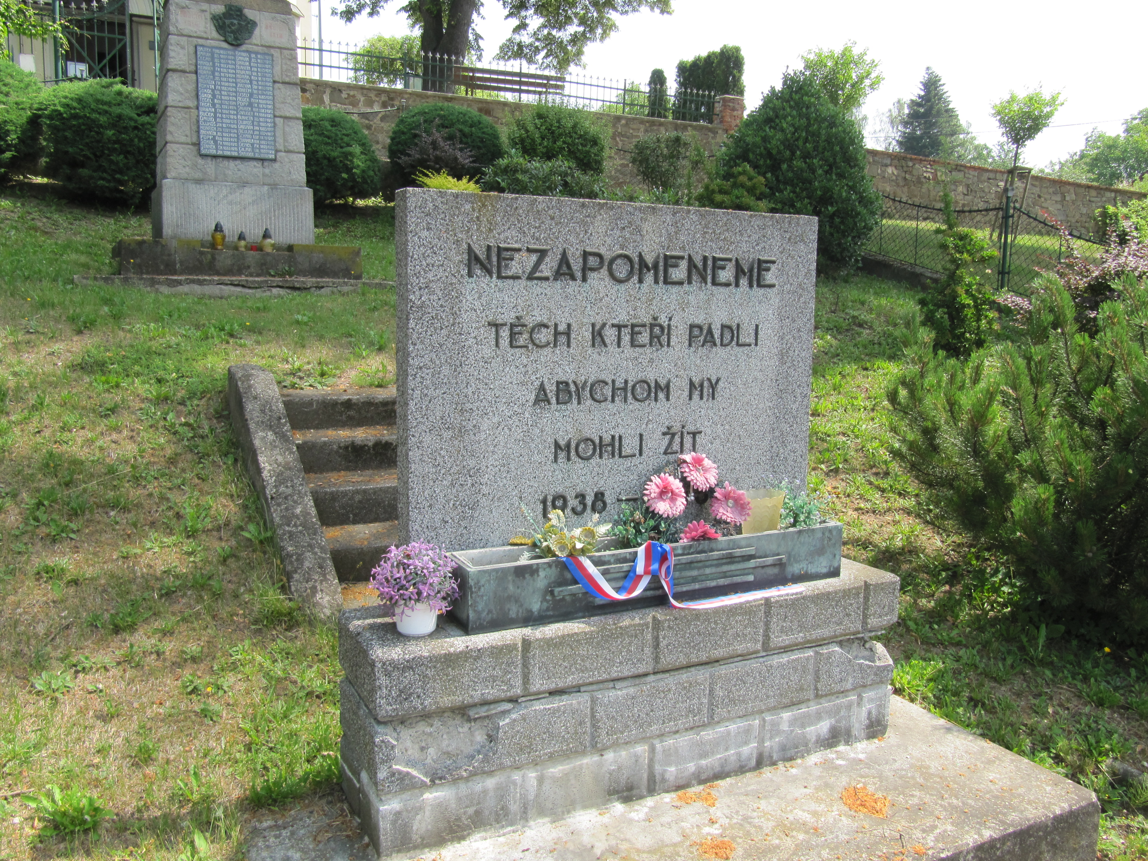 Pustějov, Nový Jičín District, Czech Republic.